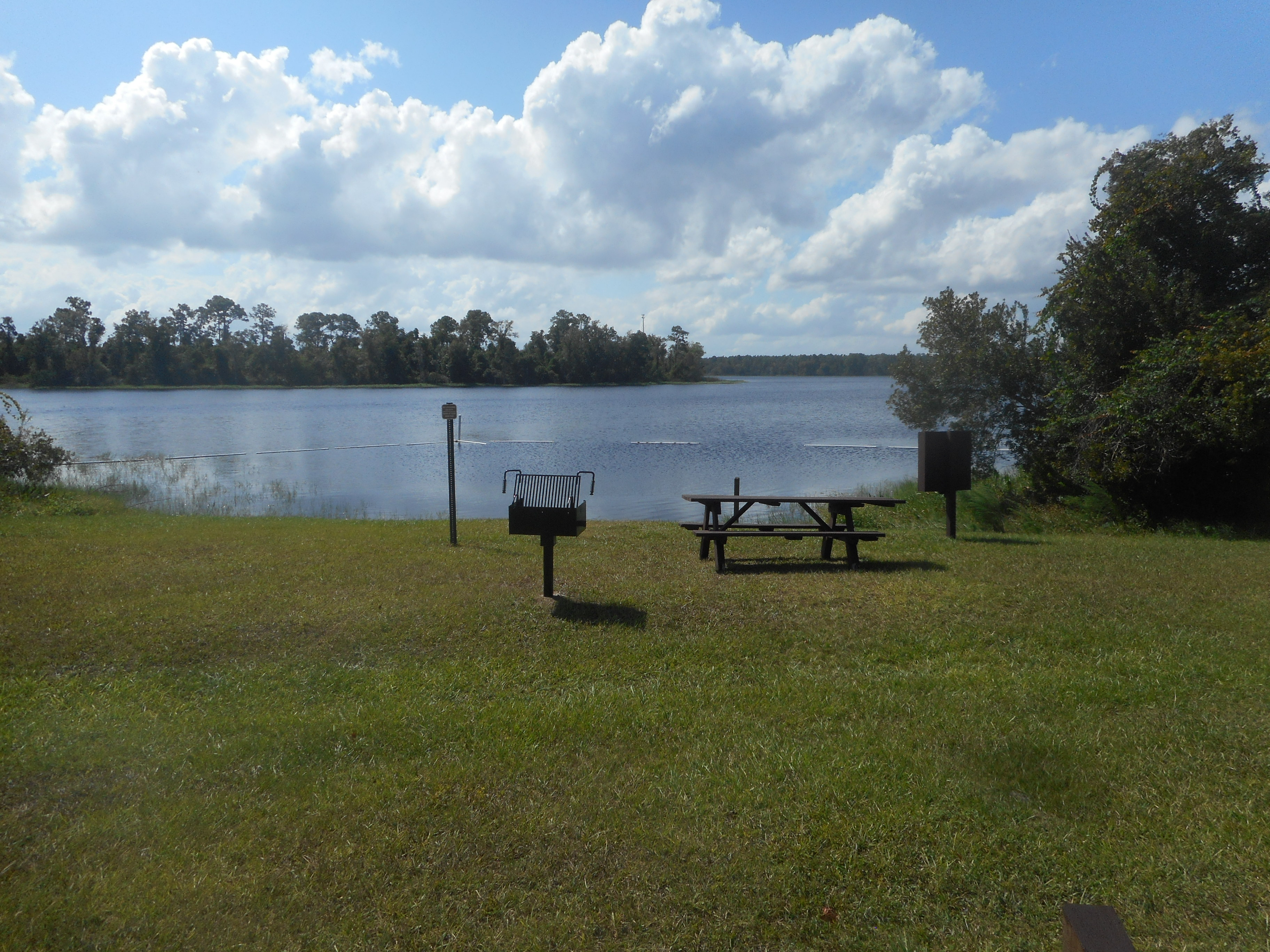 Public grille and picnic table on the north shore of Wildcat Lake at the Wildcat Lake Recreational Area within Ocala National Forest in Lake County, Florida. Picnicking at the lake is a safer activity in the area than swimming.